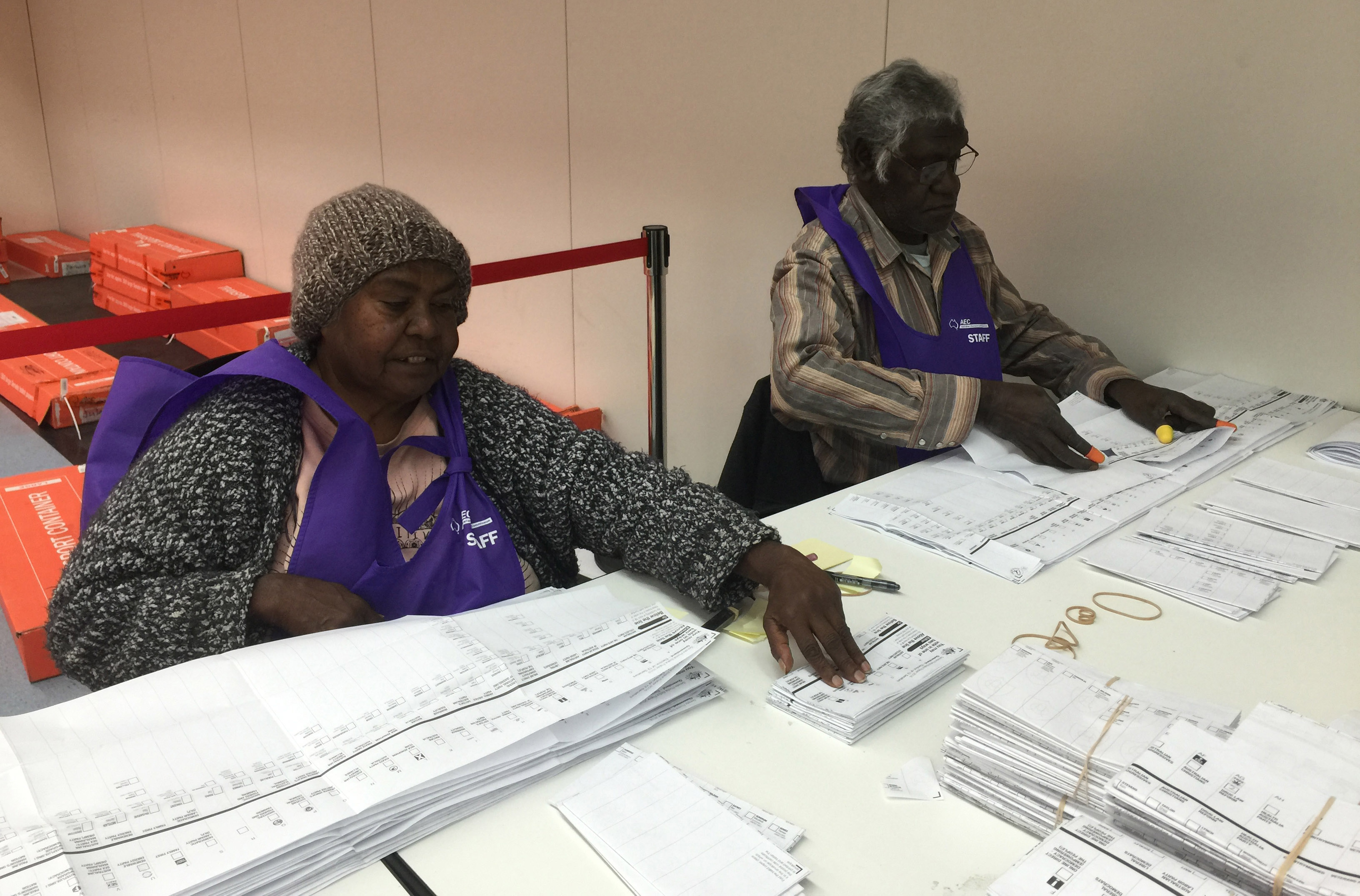 Australian Electoral Commission image library, 2016 federal election. Senate count, Mount Isa, Queensland.